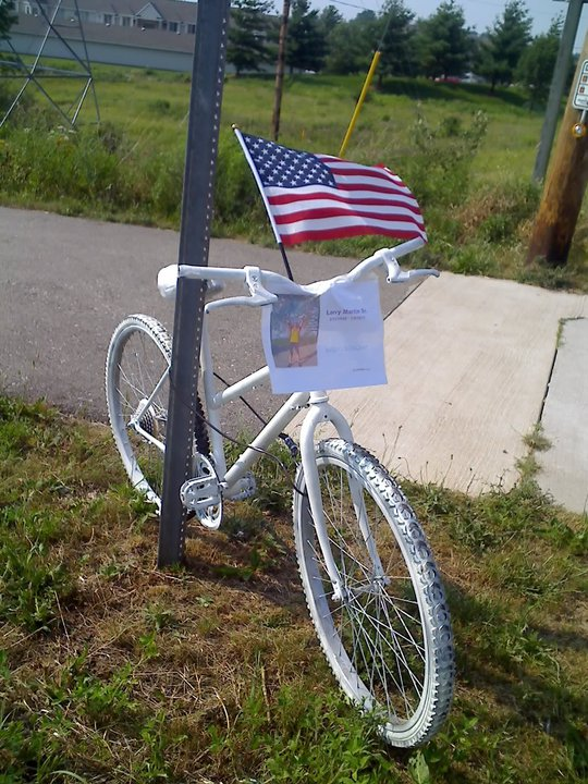 Ghostbike for Larry Martin Sr. Mixed media.